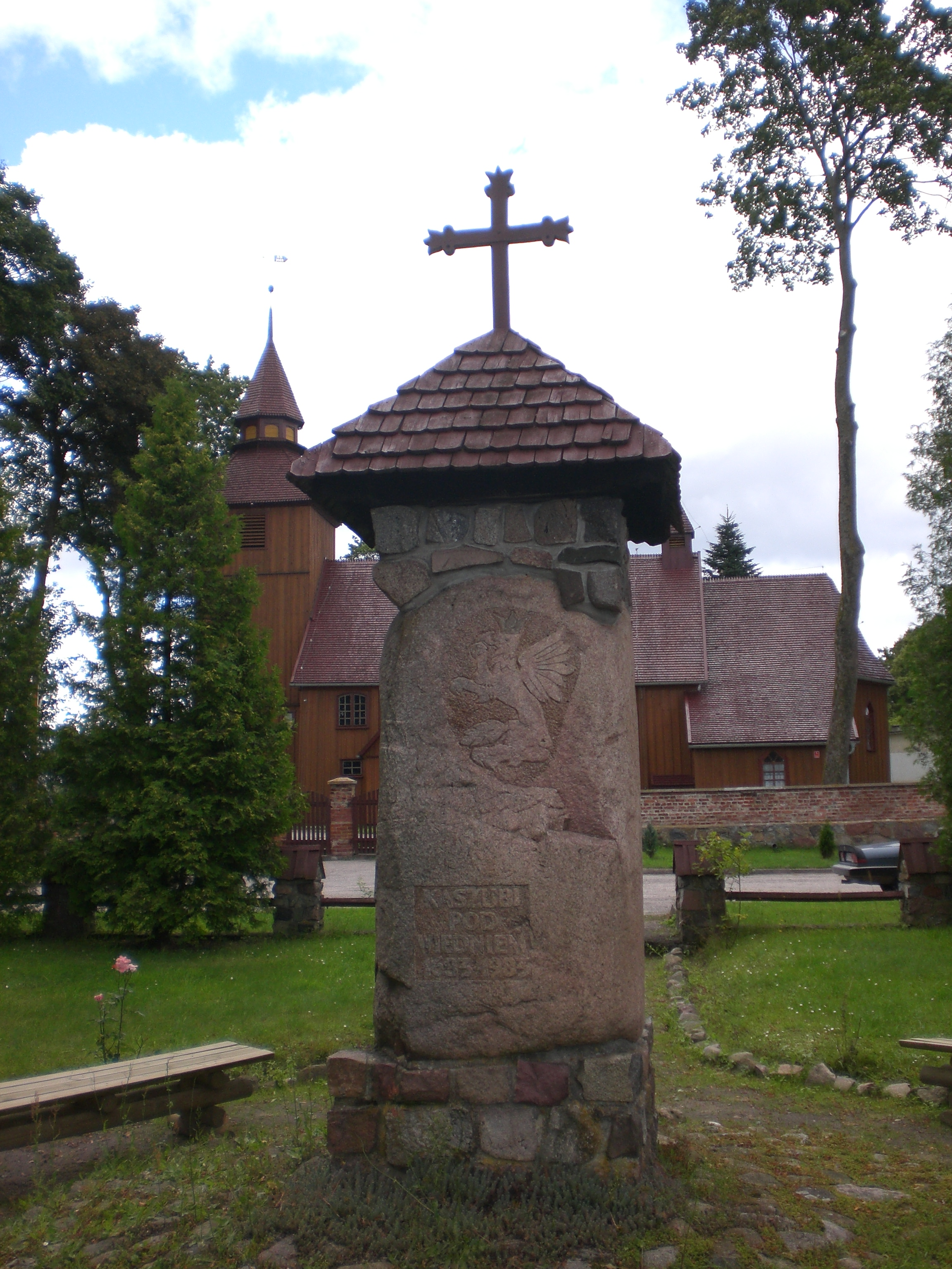 Brzeźno Szlacheckie - monument of cashubian knights by battle of Vienna 1683